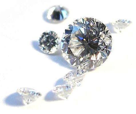 Diamond